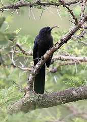 A young Abyssinian Scimitarbill (Rhinopomastus minor) "yet to develop the bright red bill" in Tanzania. Note that the full resolution version is copyrighted; only this resolution or smaller is freely licensed.